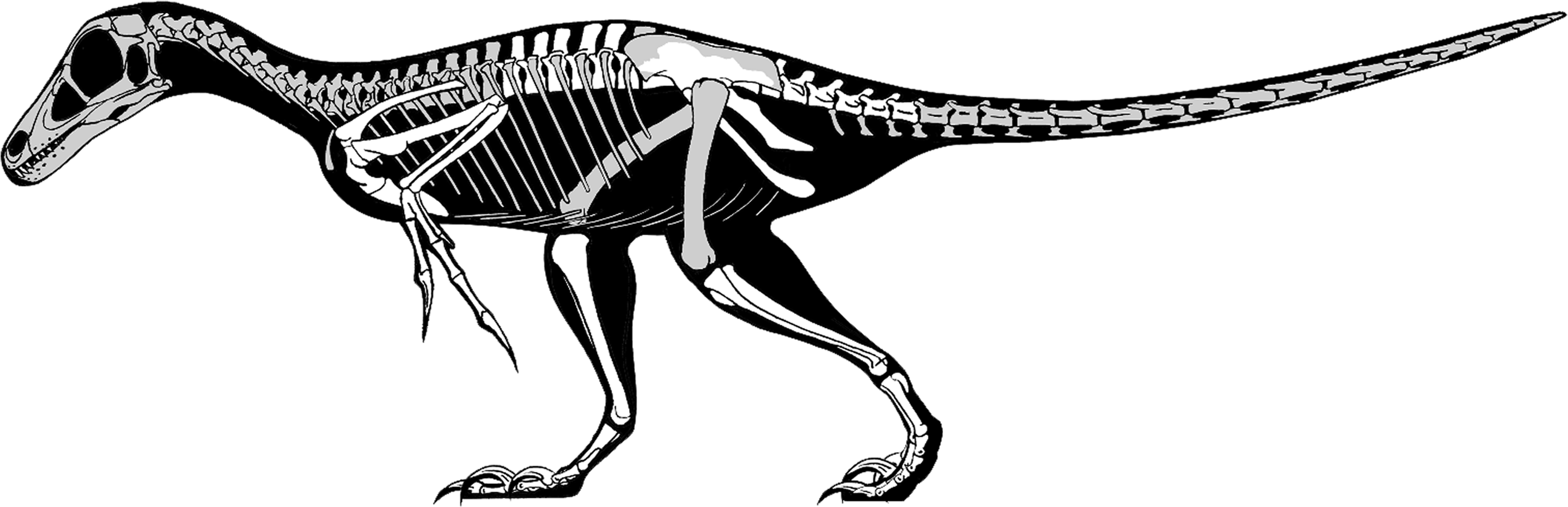 Speculative skeletal reconstruction for Balaur bondoc, showing known elements in white and unknown elements in grey. Note that the integument would presumably have substantially altered the outline of the animal in life.